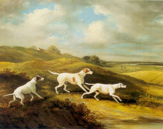 Samuel Alken. "Pointers in Landscape"